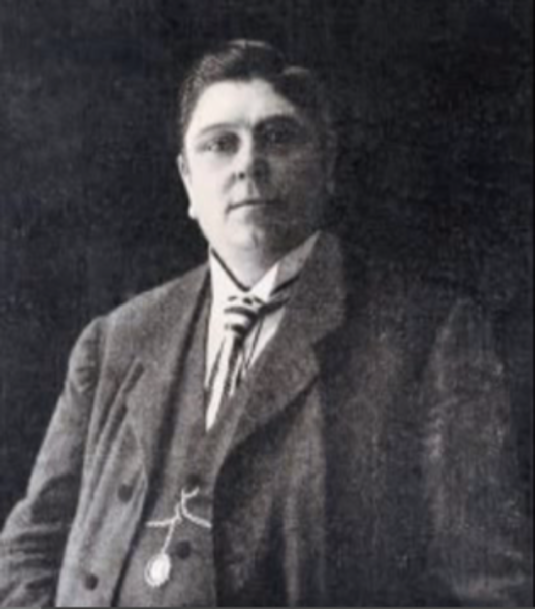 Alessandro Moreschi, italian castrato